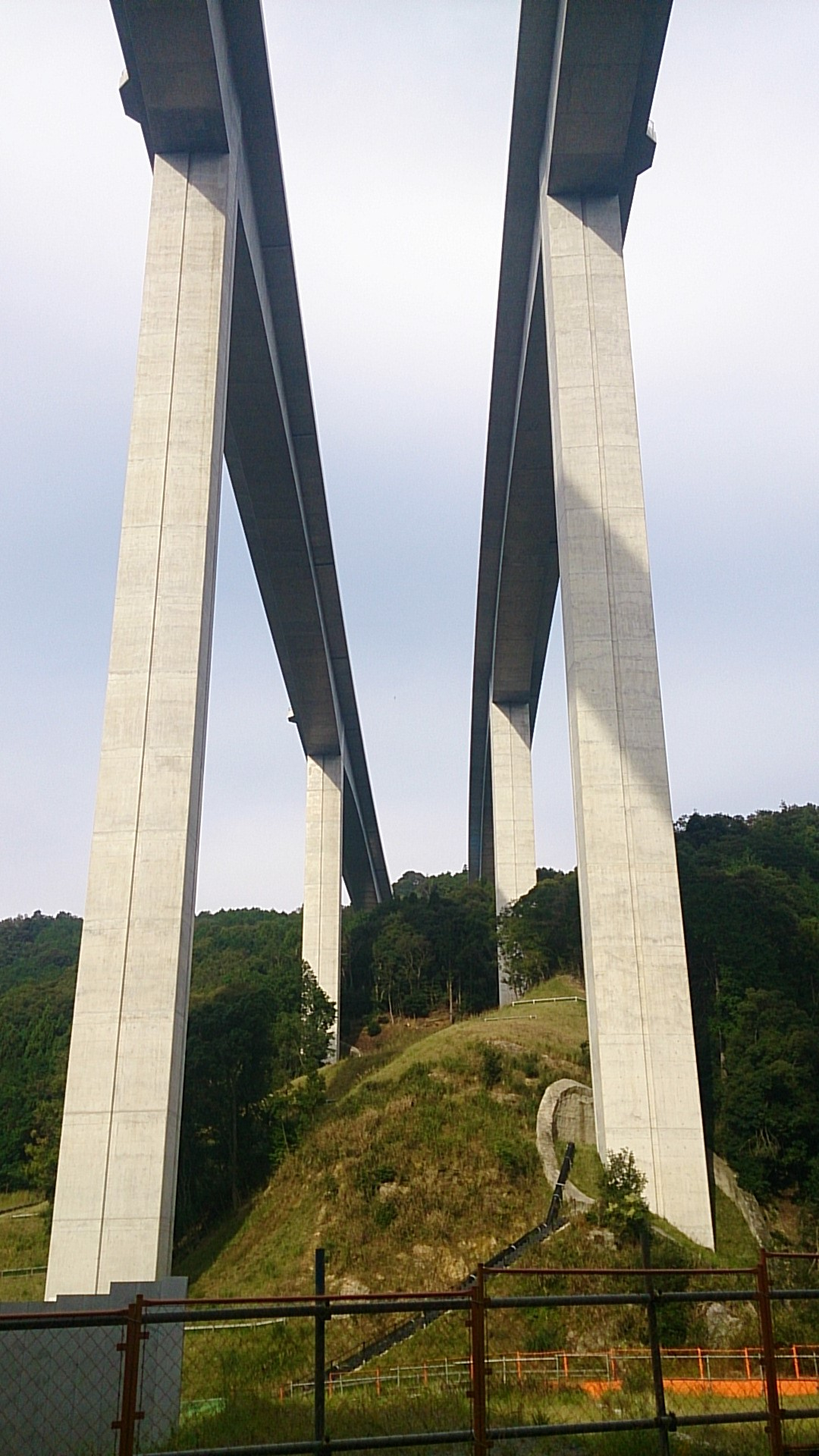 Shin-Sanagawa bridge, Shin-Tomei Expwy, Toyokawa, Aichi